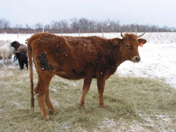 A Canadian heifer in Antigonish County, Nova Scotia, Canada